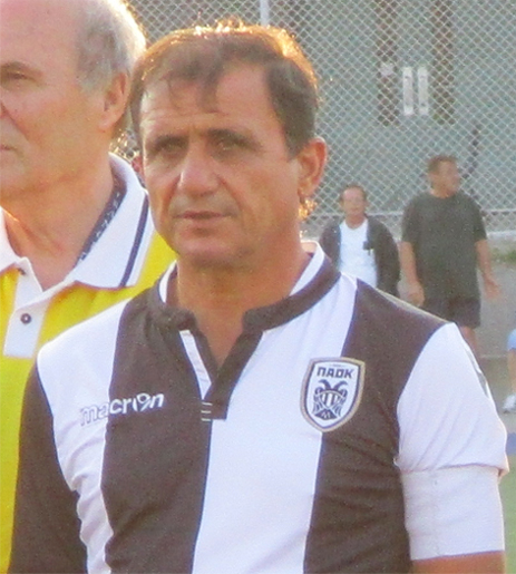 Kyriakos Alexandridis captaining the PAOK Veterans squad during a friendly match in Toronto.